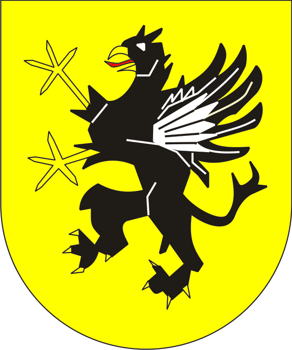 coats of arms of the lordship of Barth